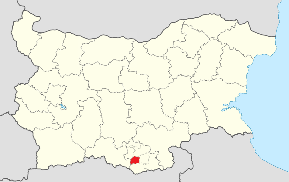 Location map of Dzhebel Municipality within Bulgaria and Kardzhali province